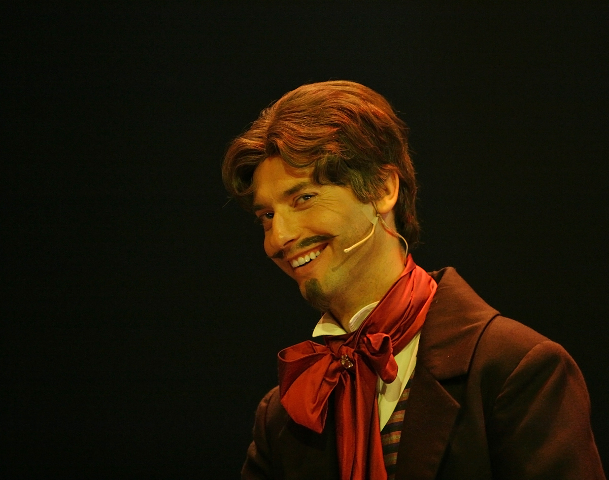 Grzegorz Pierczyński as Richard Firmin in the musical "The Phantom of the Opera", Roma Musical Theatre in Warsaw, 23 September 2008.